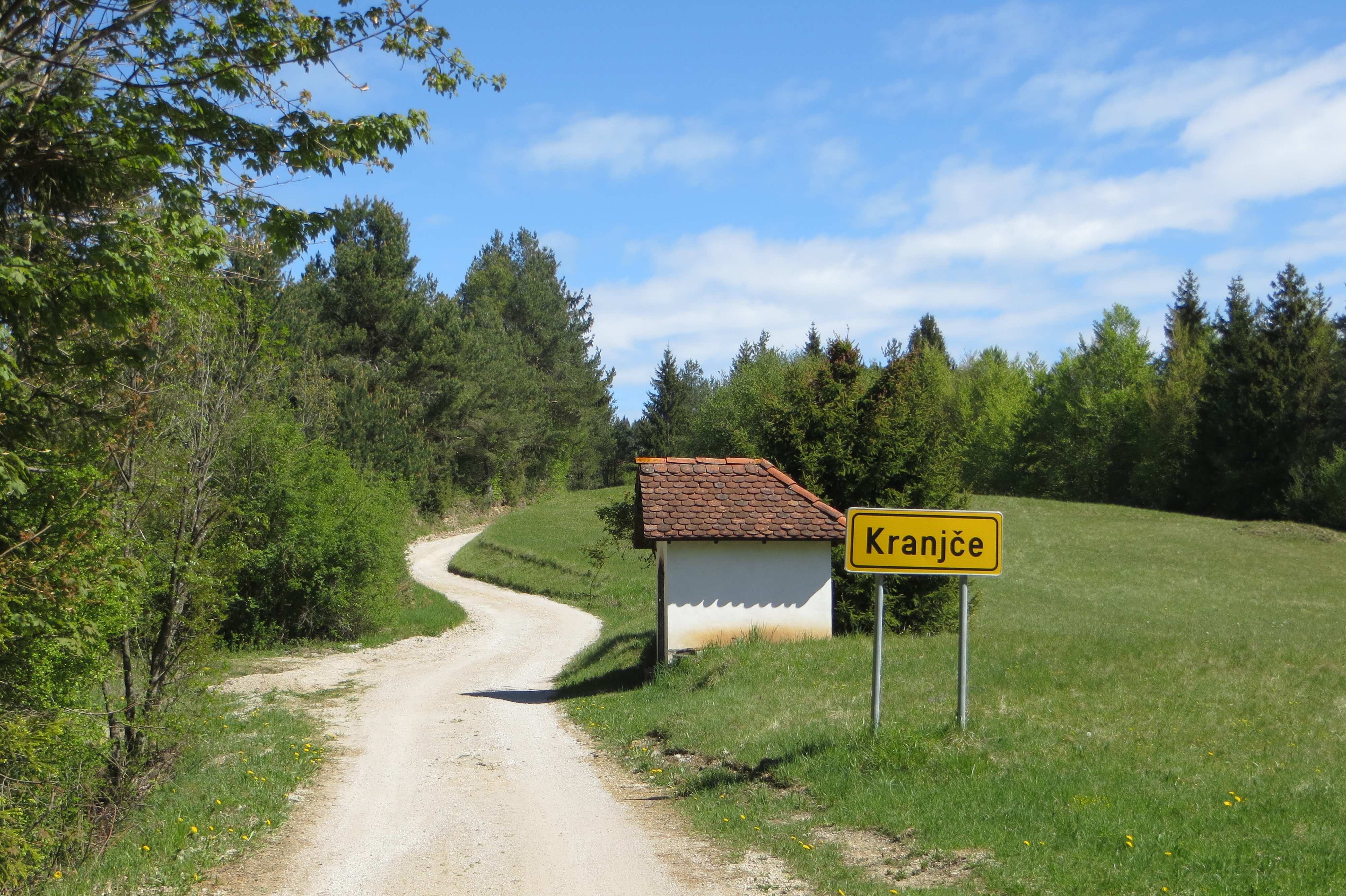 Kranjče, Municipality of Cerknica, Slovenia